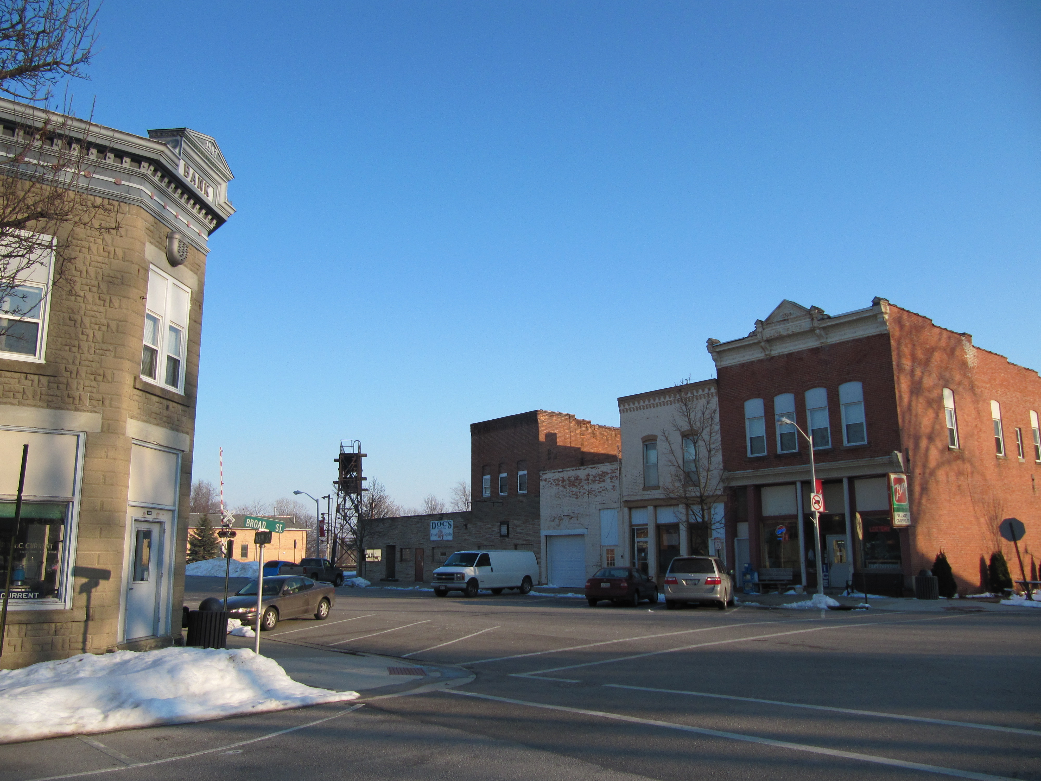 Photograph of the village of Tontogany, Ohioen, taken at street level from the intersection of Broad and Main streets, looking East toward downtown and the railroad intersection.